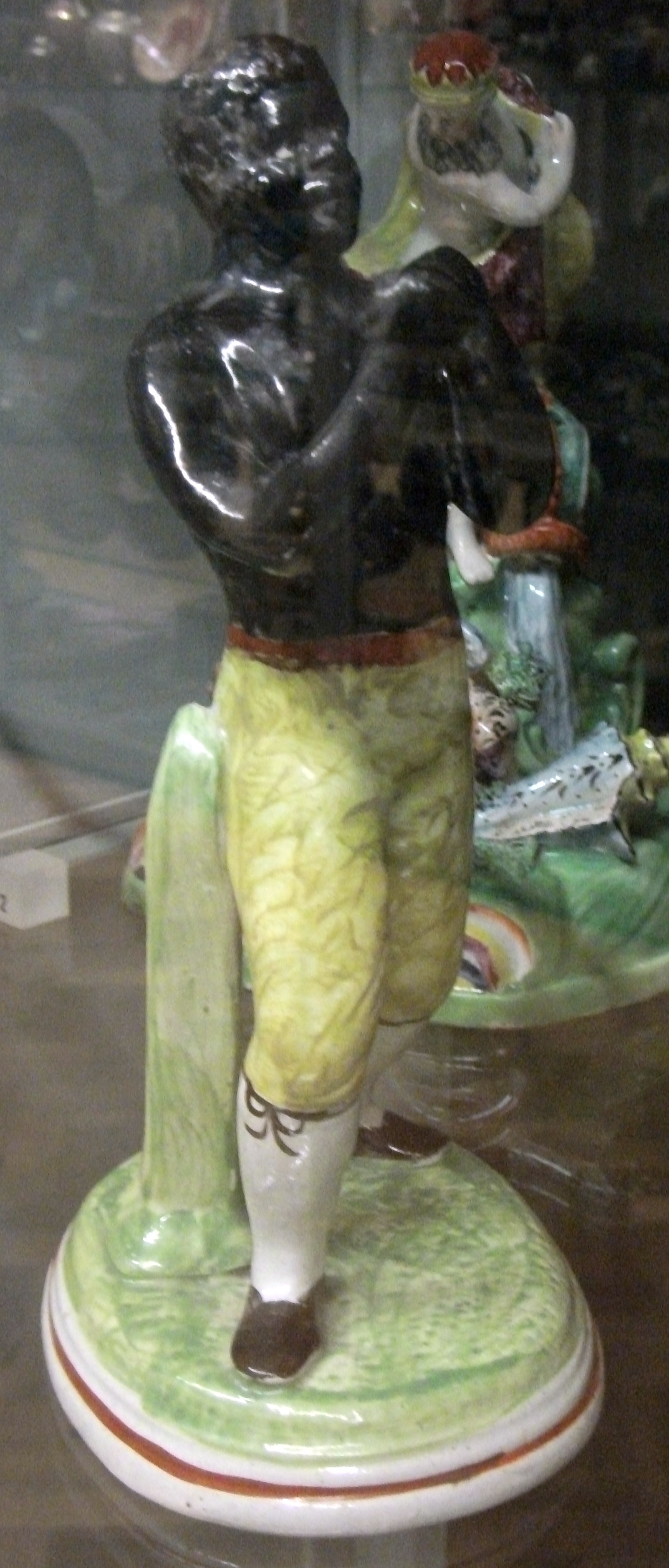 Tom Molyneux c1815